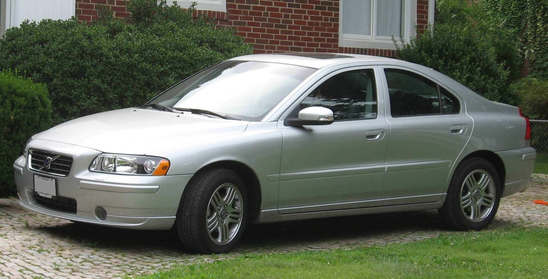 Volvo S60 photographed in Kensington, Maryland, USA.